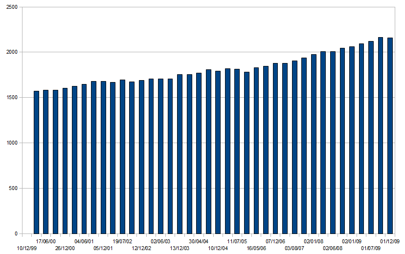 Population Growth of Auroville from 1999 to 2009